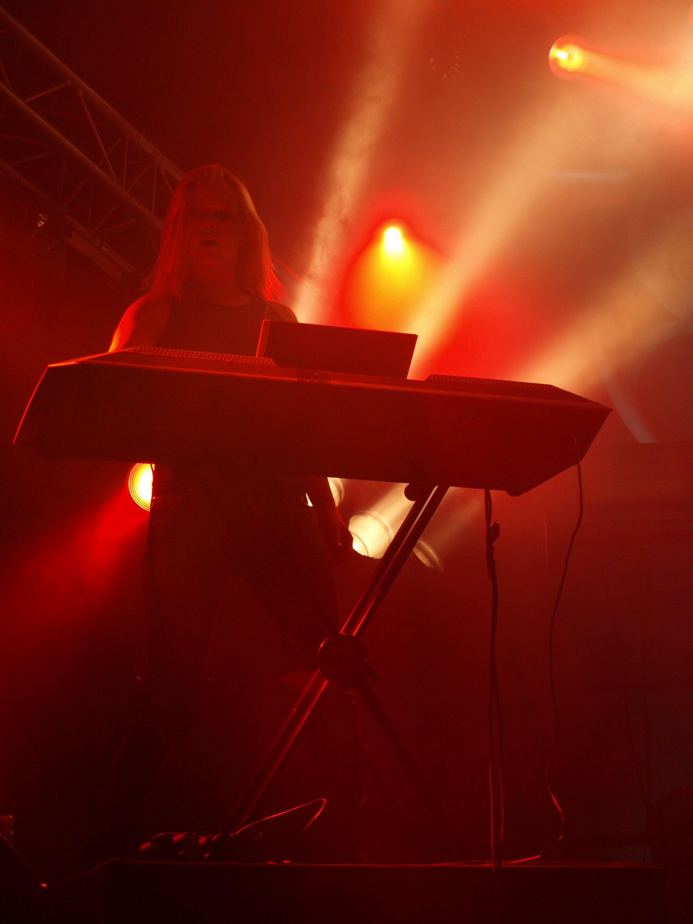 Norwegian black metal band Satyricon live at Jalometalli 2008 in Oulu.